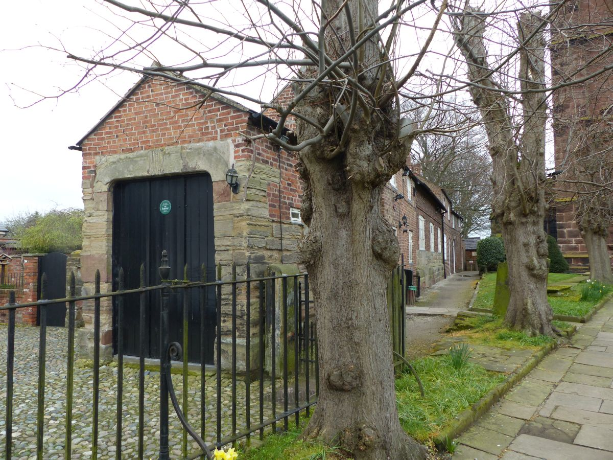 Grade II listed building in Tarvin, Cheshire.